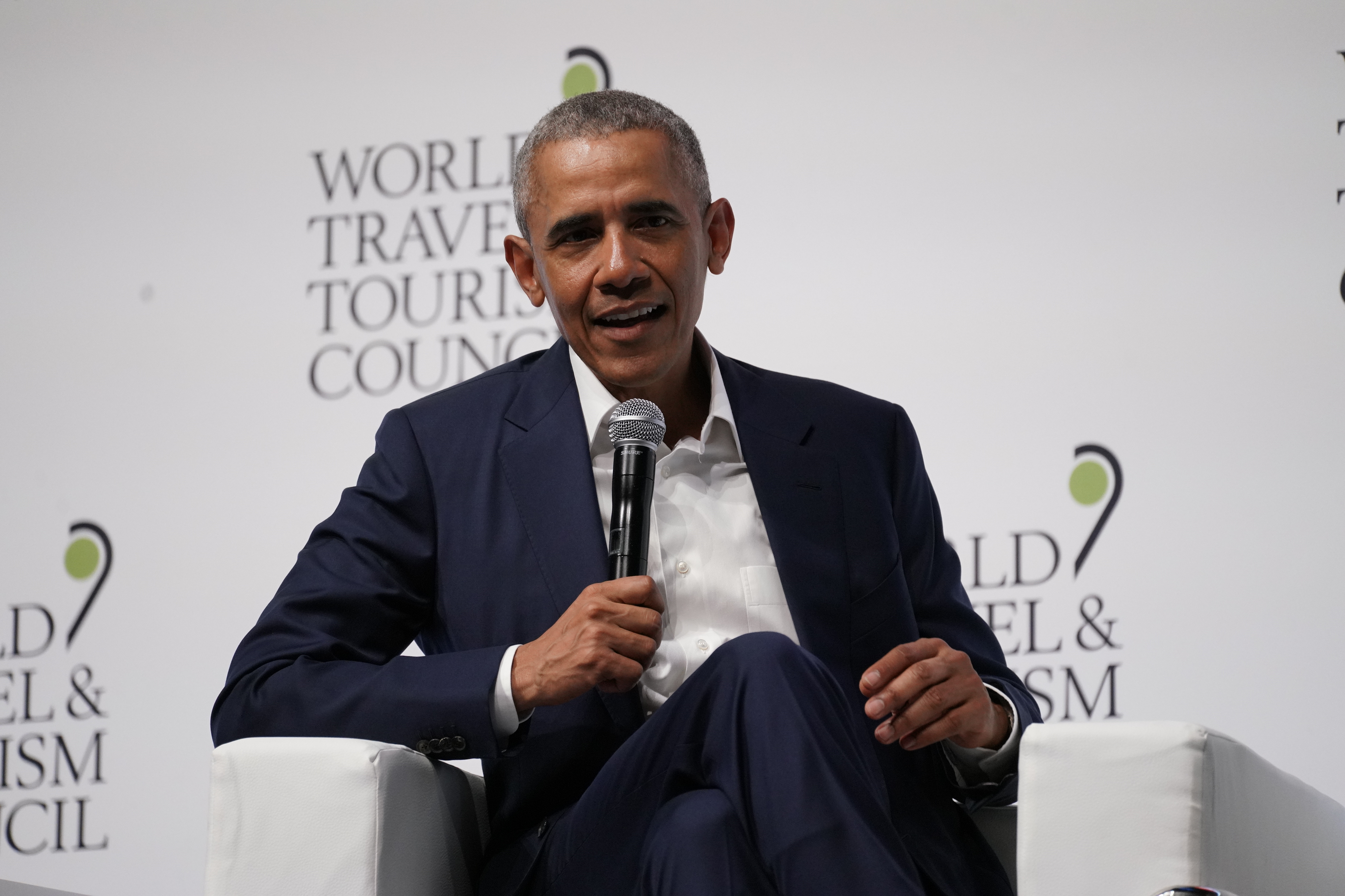 Barack Obama, 44th President of the United States of America